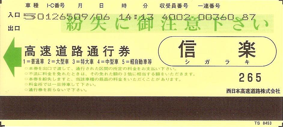 Expressway toll ticket in Japan